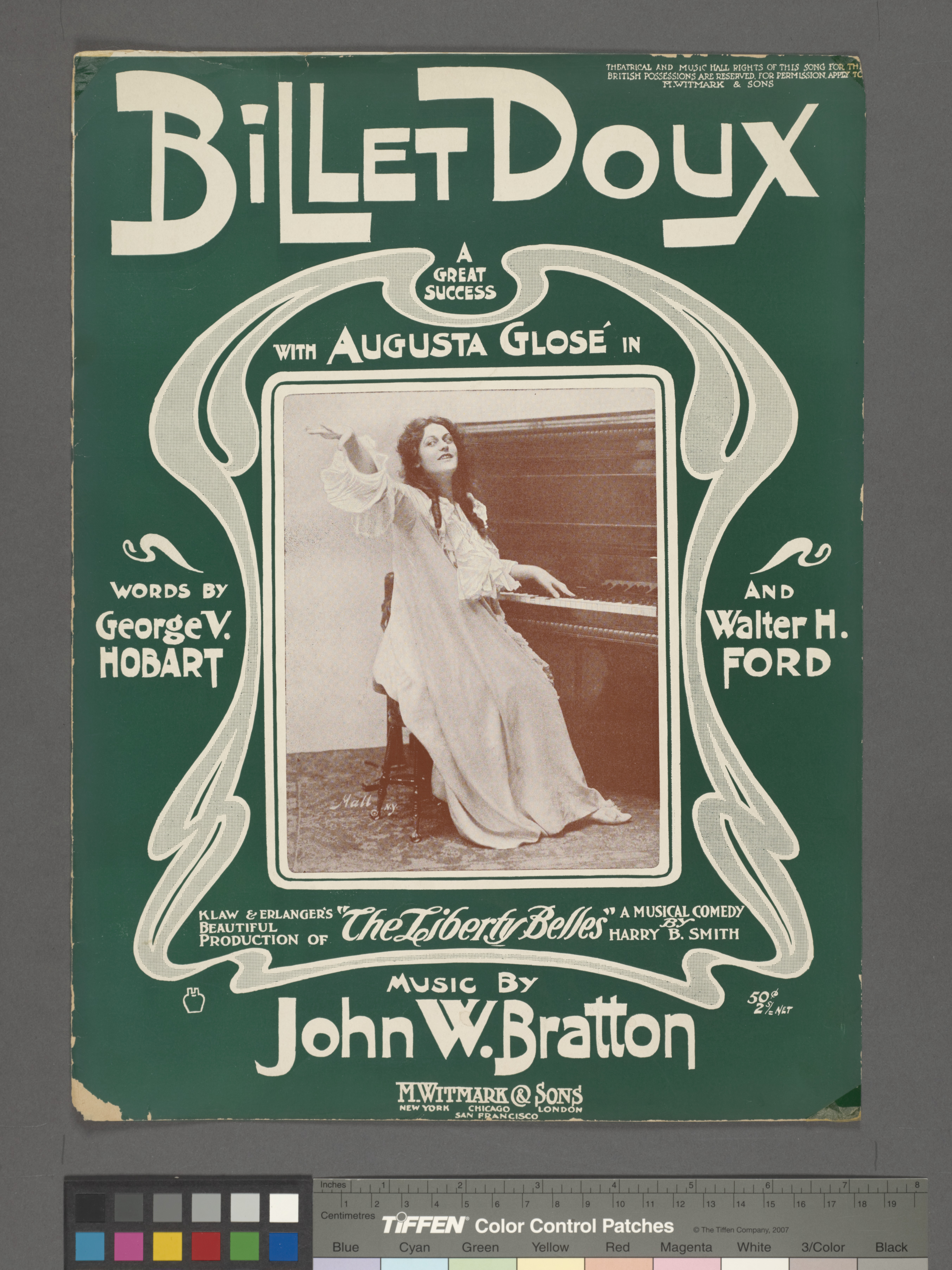 On cover: Augusta Glosé playing piano. Statement of responsibility : words by George V. Hobart and Walter H. Ford ; music by John W. Bratton.